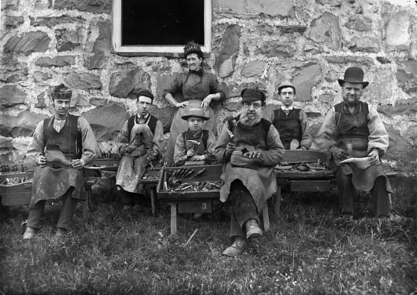 1 negative : glass, dry plate, b&w ; 12 x 16.5 cm.